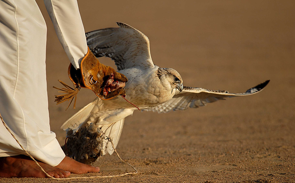 A unidentified falcon after capturing prey in falconry. Photo taken somewhere in the United Arab Emirates.